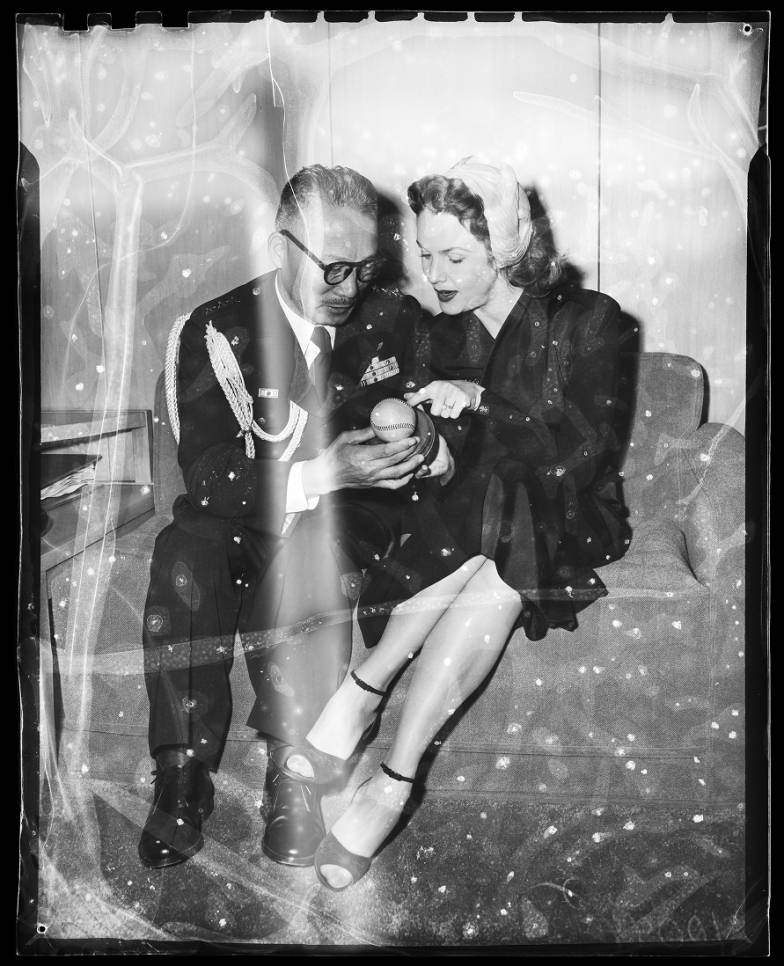 Title Lieutenant General Choi Yong Duk (Chief of Staff, Republic of Korea Air Force) and Barbara Britton (actress) November 1953. From University of Southern California digital library.